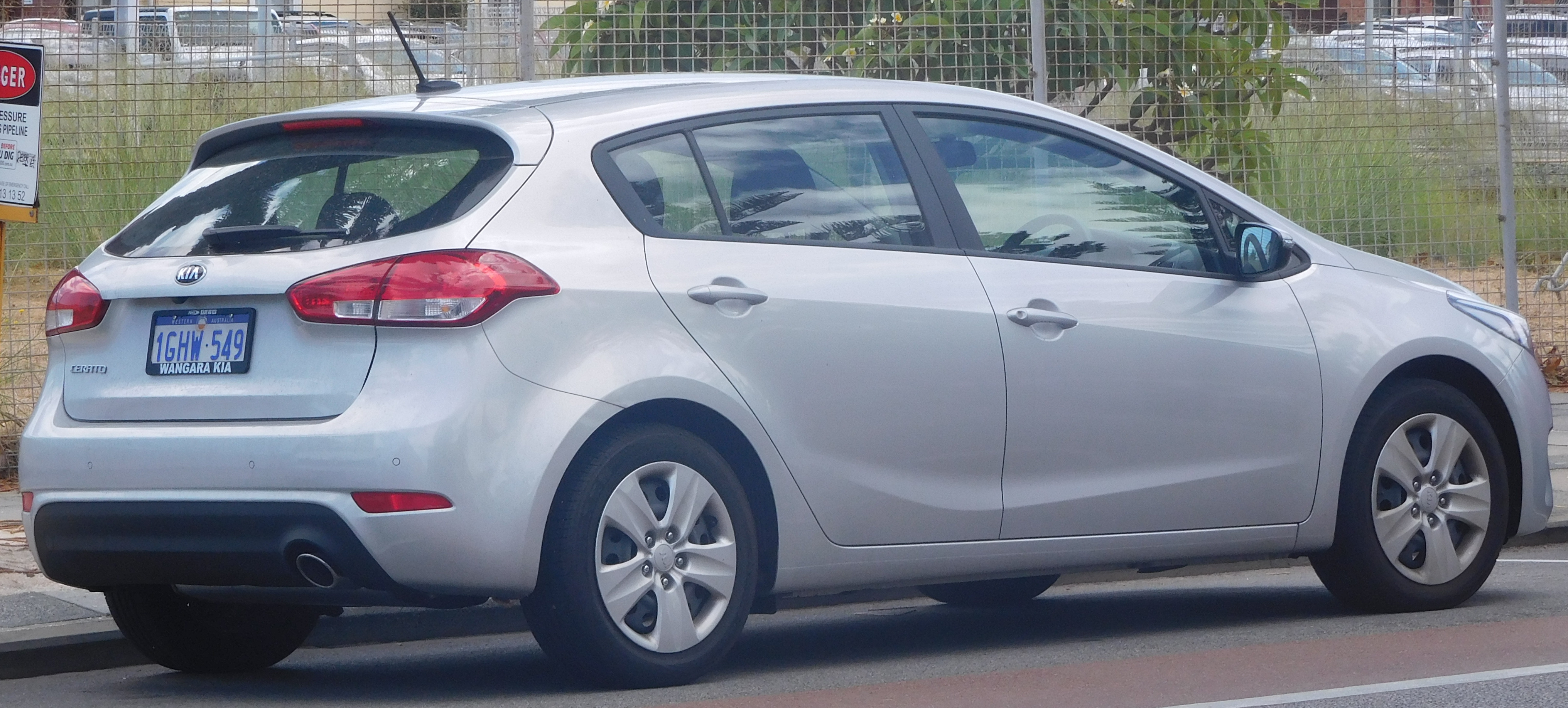 2017 Kia Cerato (YD) S hatchback. Photographed in Fremantle, Western Australia, Australia.